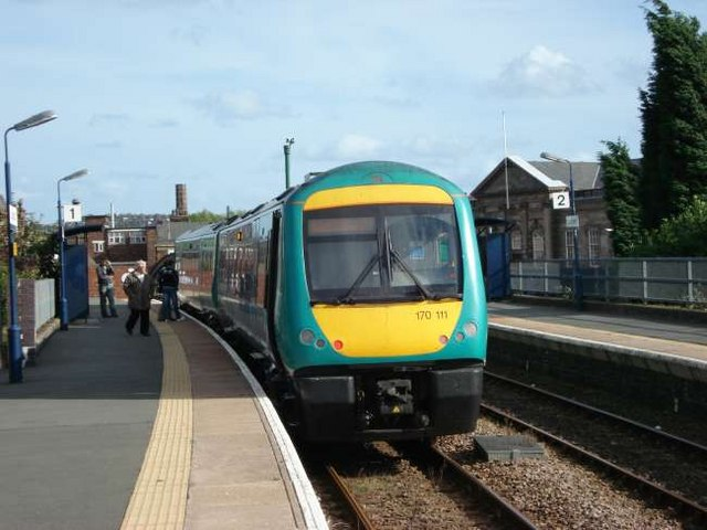 Derby-bound train 170111 at Longton railway station